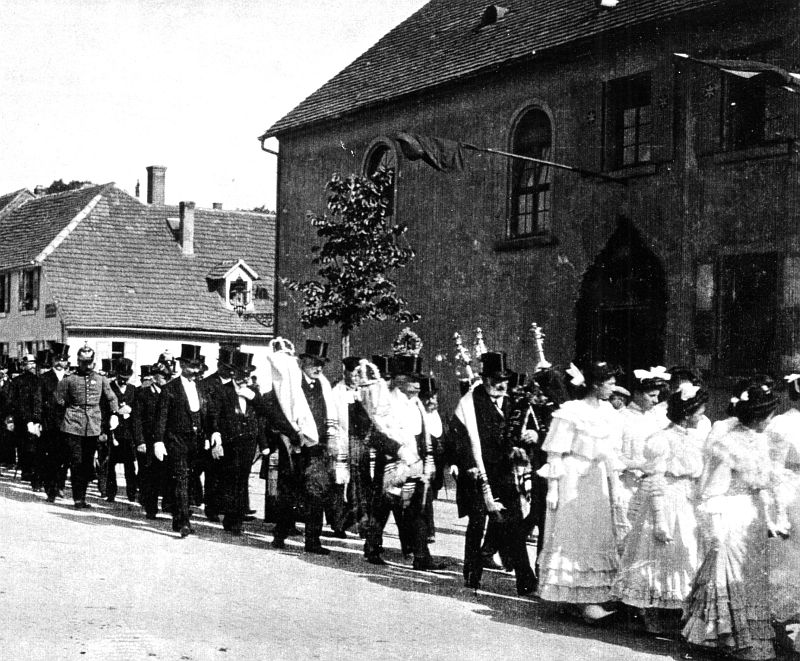 Inauguration of the synagogue of Rastatt in 1906